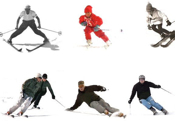 Different styles alpine Skiing